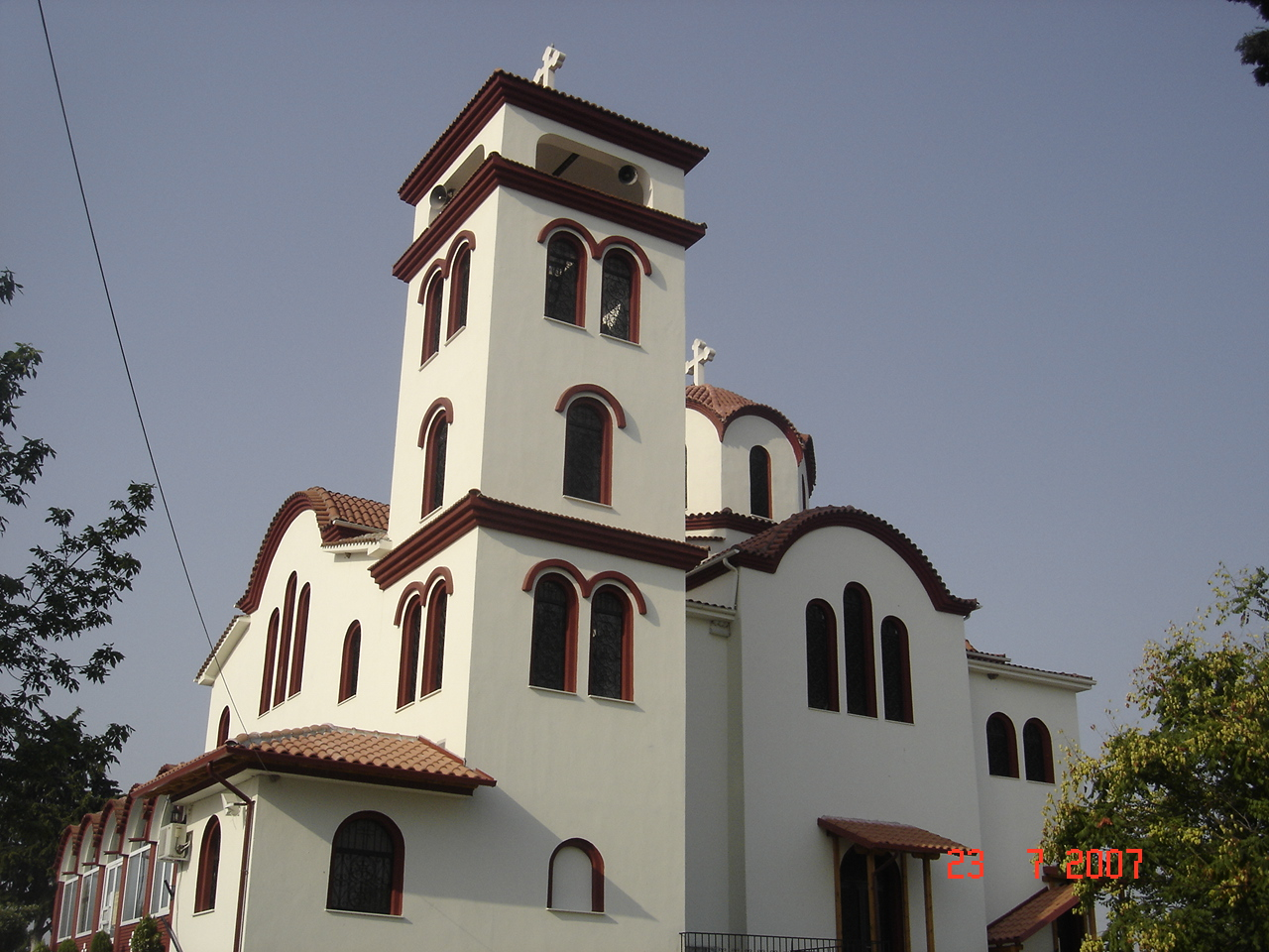 A church at Nea Hrani, Katerini.